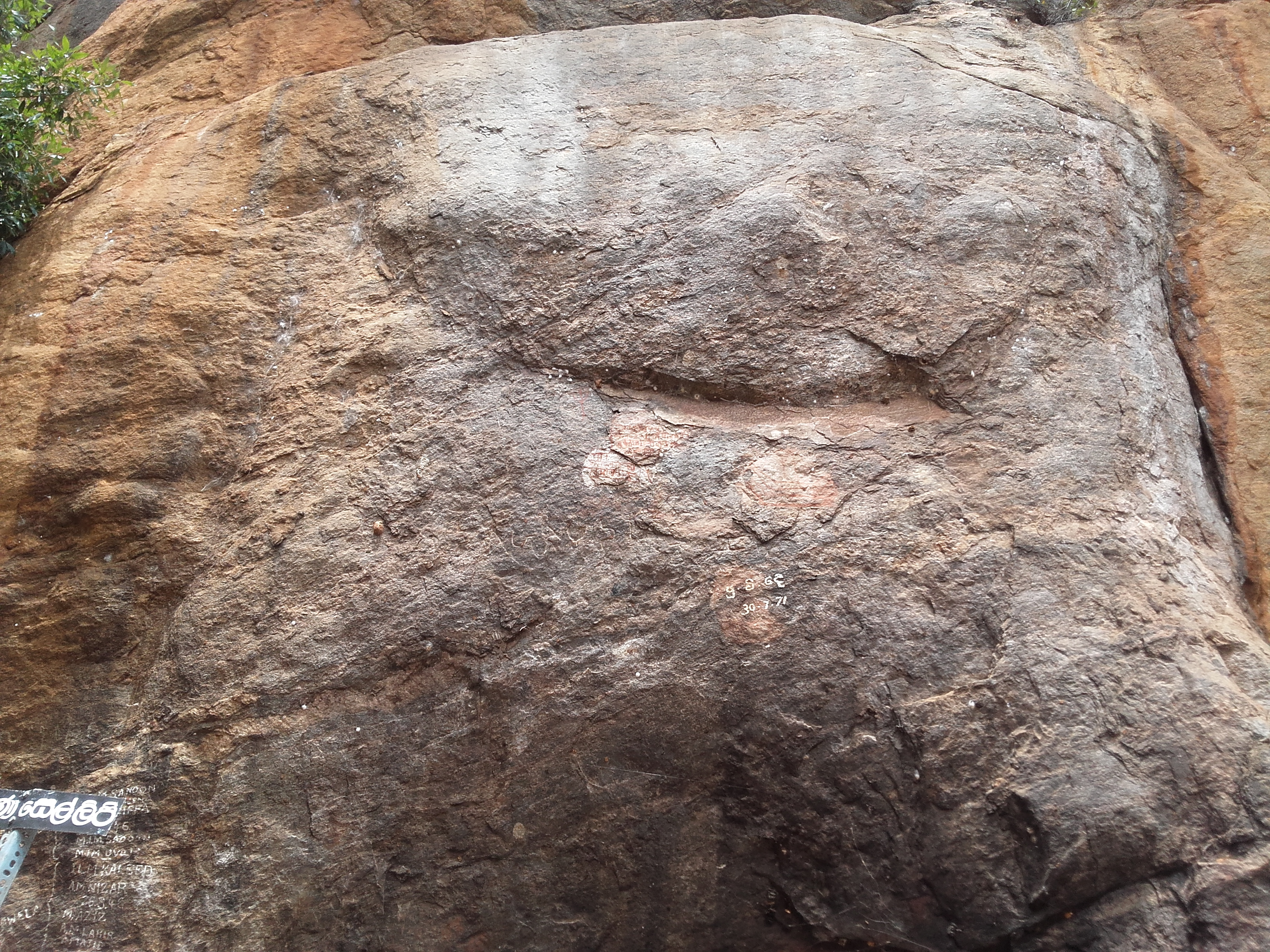 An 2nd century BC inscription at Kuragala Ancient Buddhist Monastery, Sri Lanka